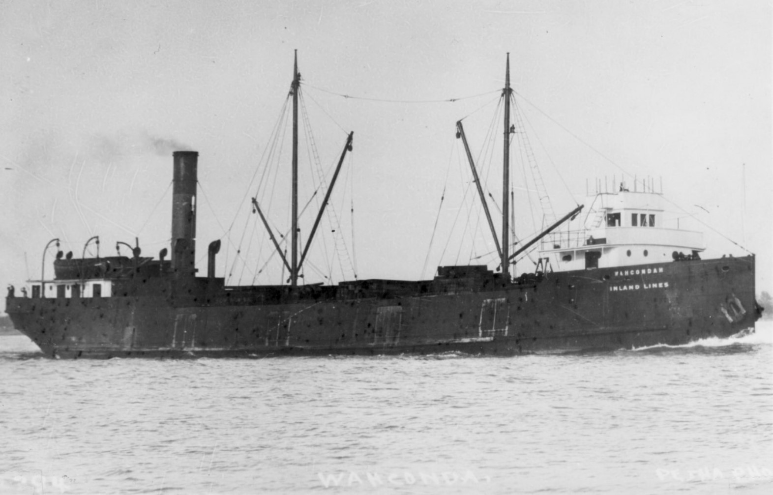 The steamer Wahcondah circa 1911